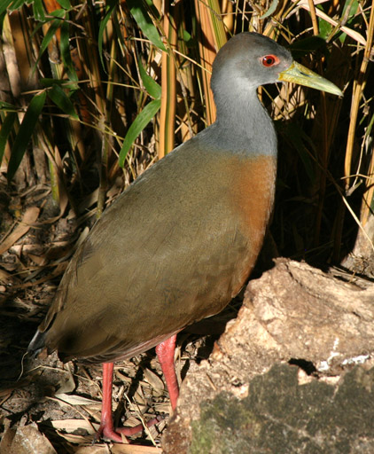 Grey-necked Wood Rail, Aramides cajanea, captive bird. Location: Jacksonville Zoo, Jacksonville, Florida, United States